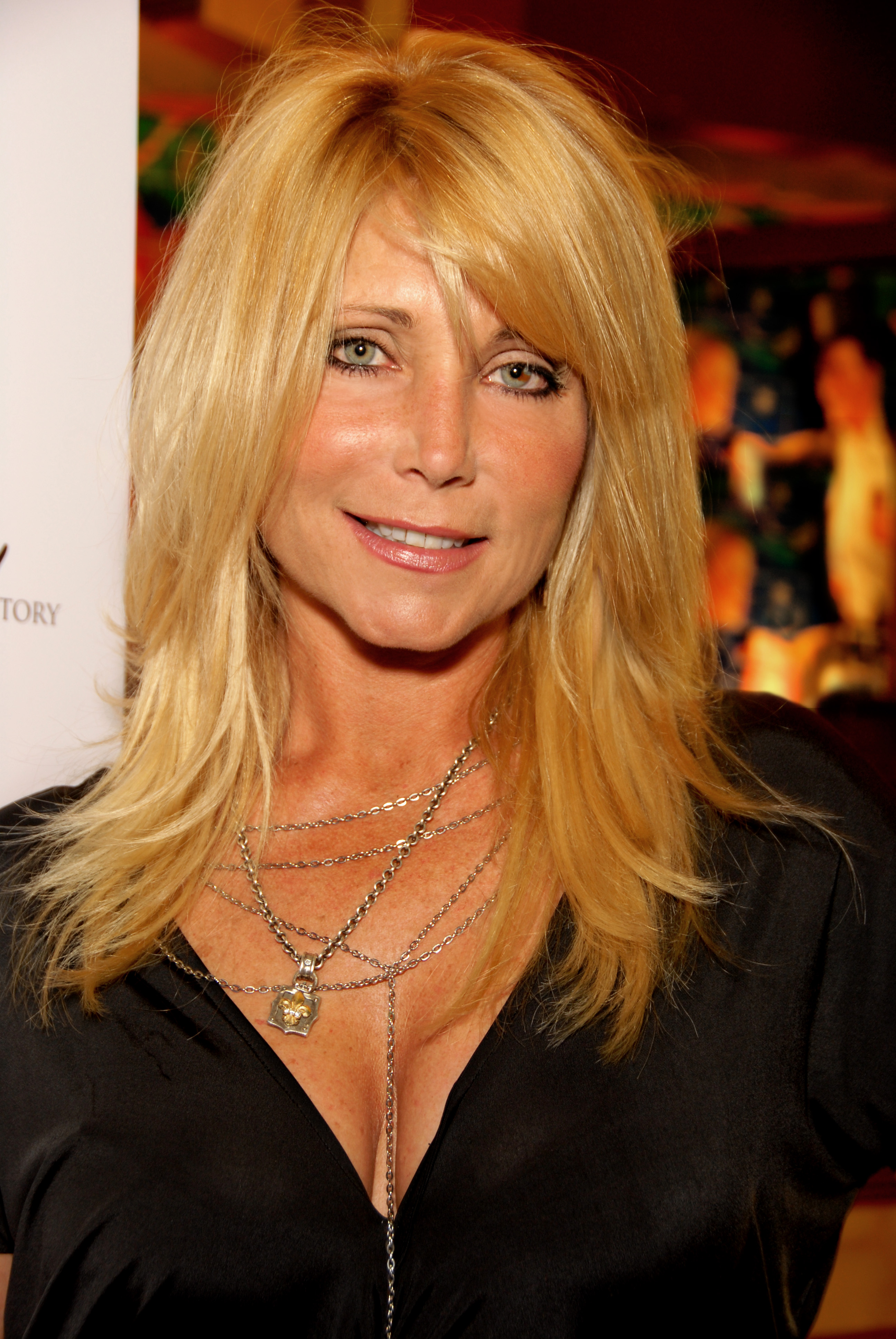 Pamela Bach-Hasselhoff attending the premiere of the movie "YOU", Westwood, CA on May 13, 2009 - Photo by Glenn Francis of